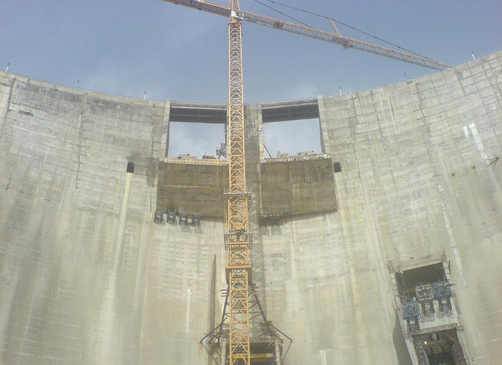 Rais-Ali Delvari dam (under Construction)